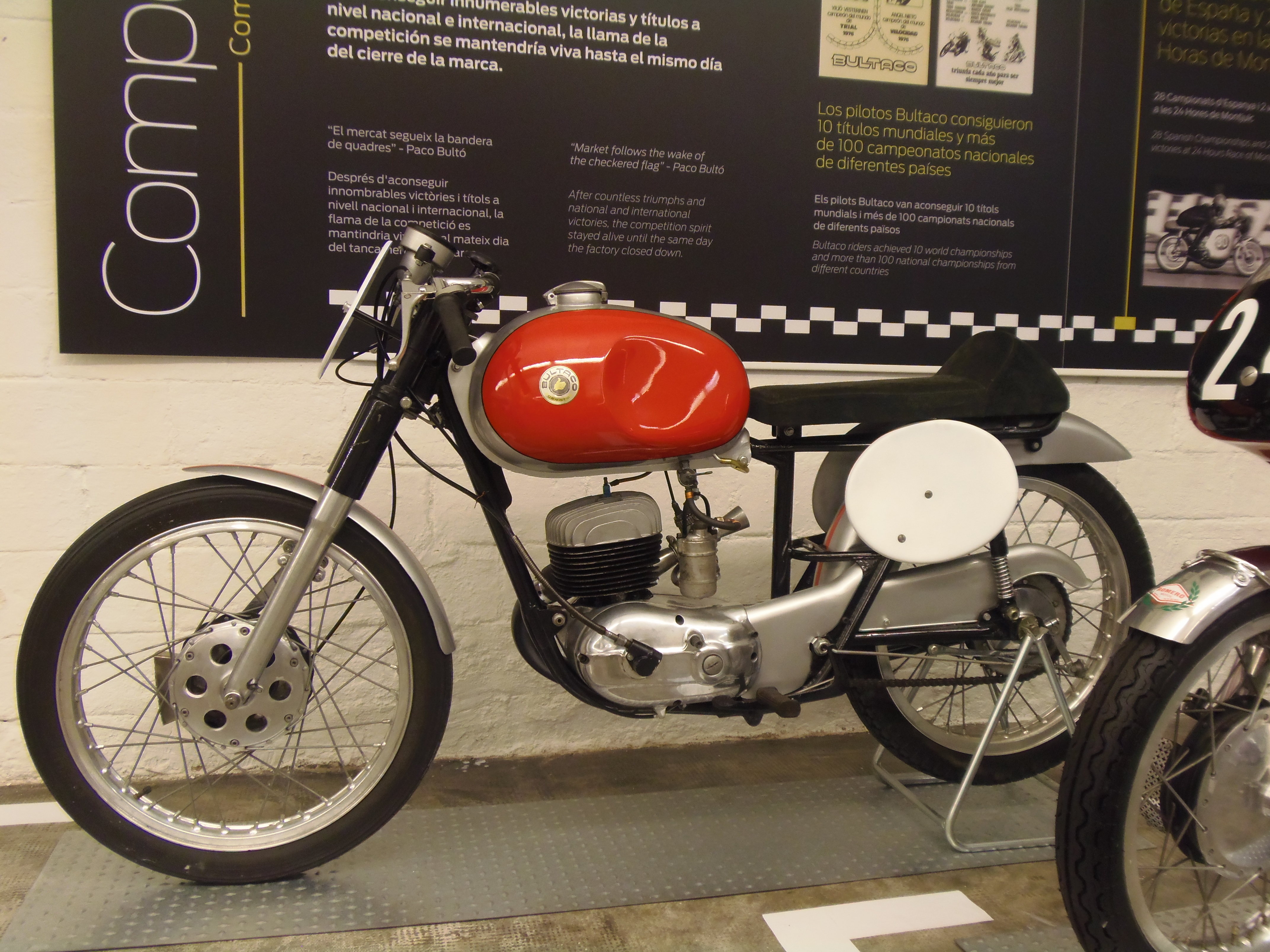 Bultaco Tralla TS, 125 cc, 1959. Named as "TS" for "Tralla Sport".